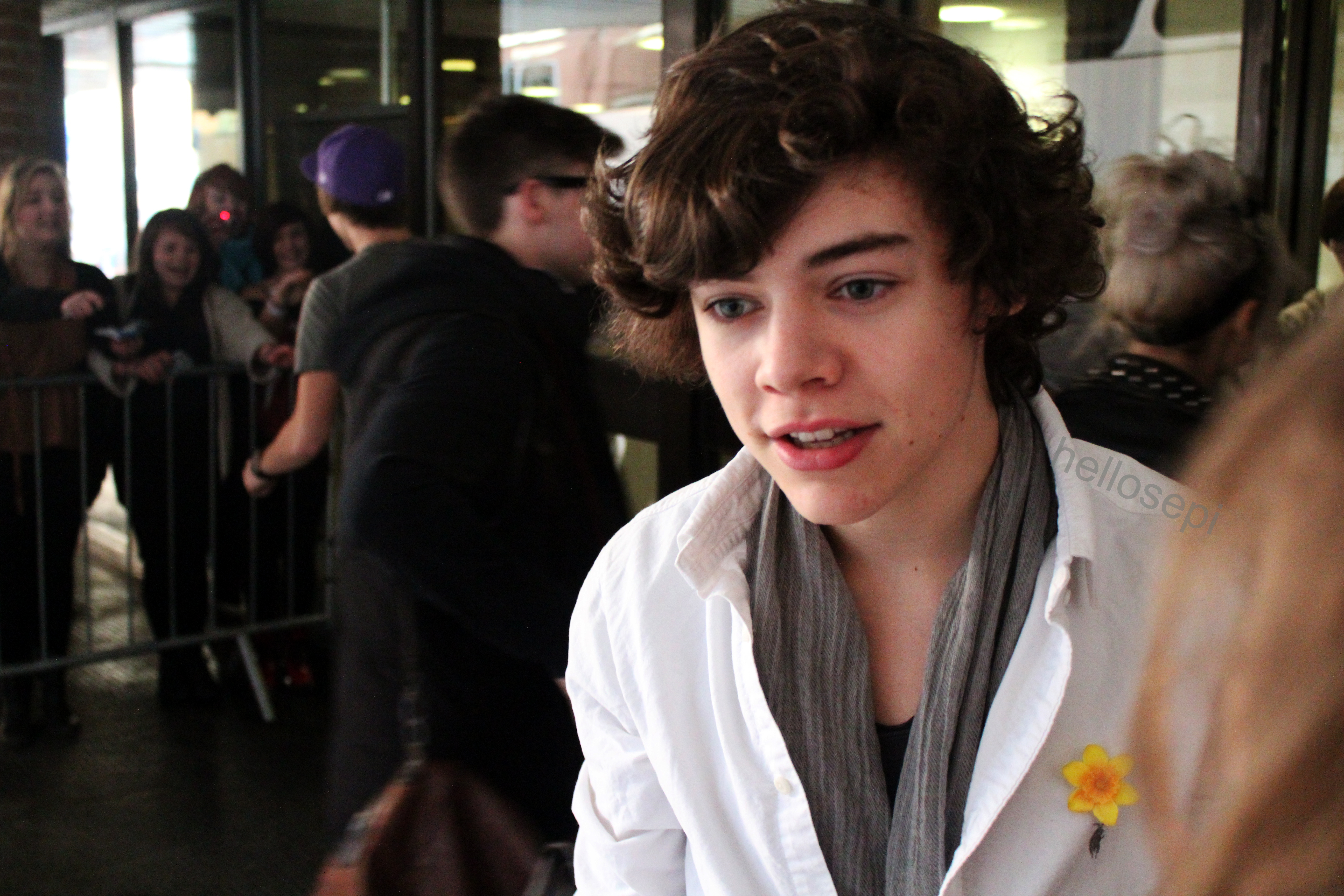 Harry Styles at a fan gathering